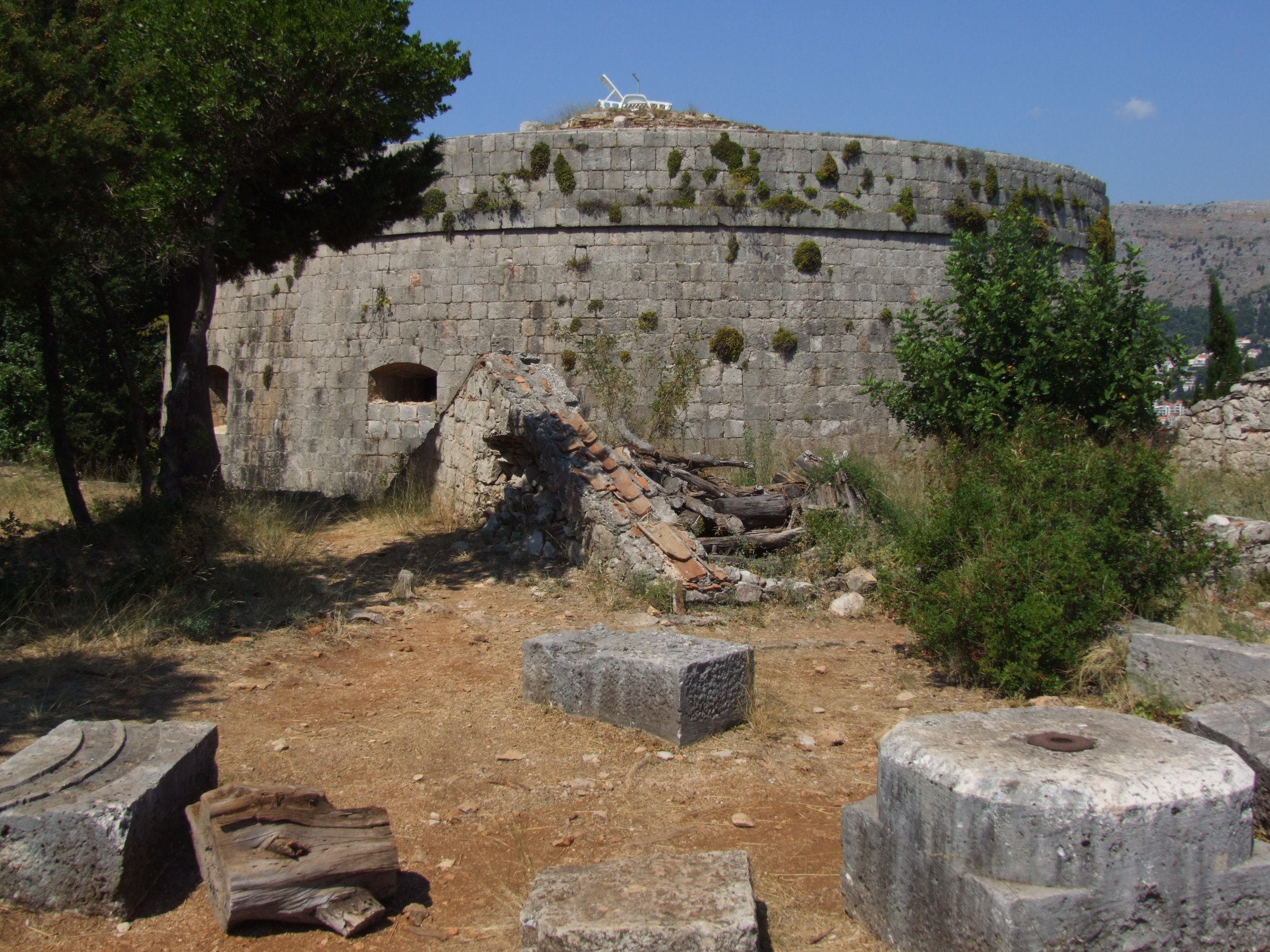 Fort Royal, Lokrum island, Croatia